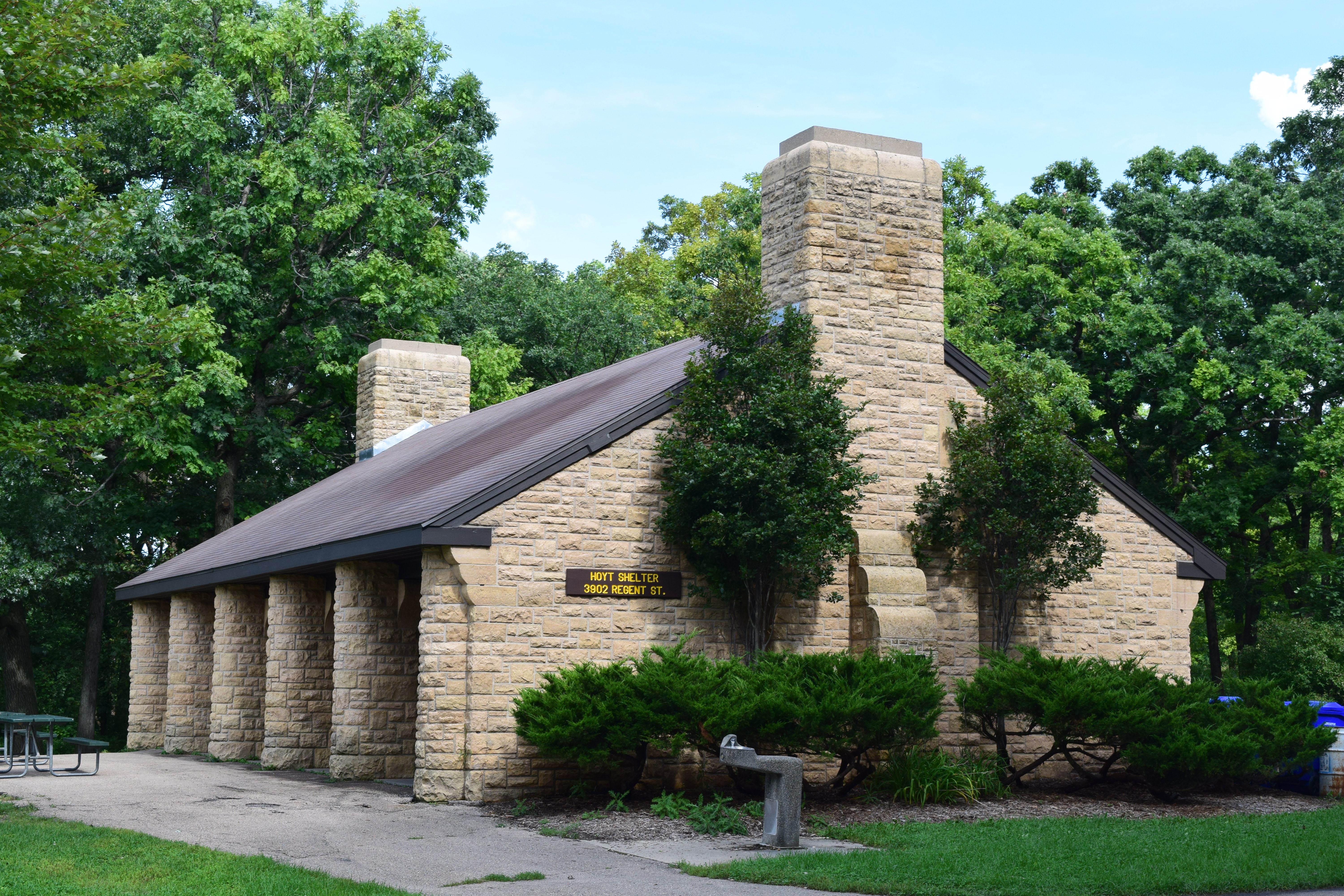 Shelter at Frank W. Hoyt Park in Madison, Wisconsin. The park is listed on the National Register of Historic Places.